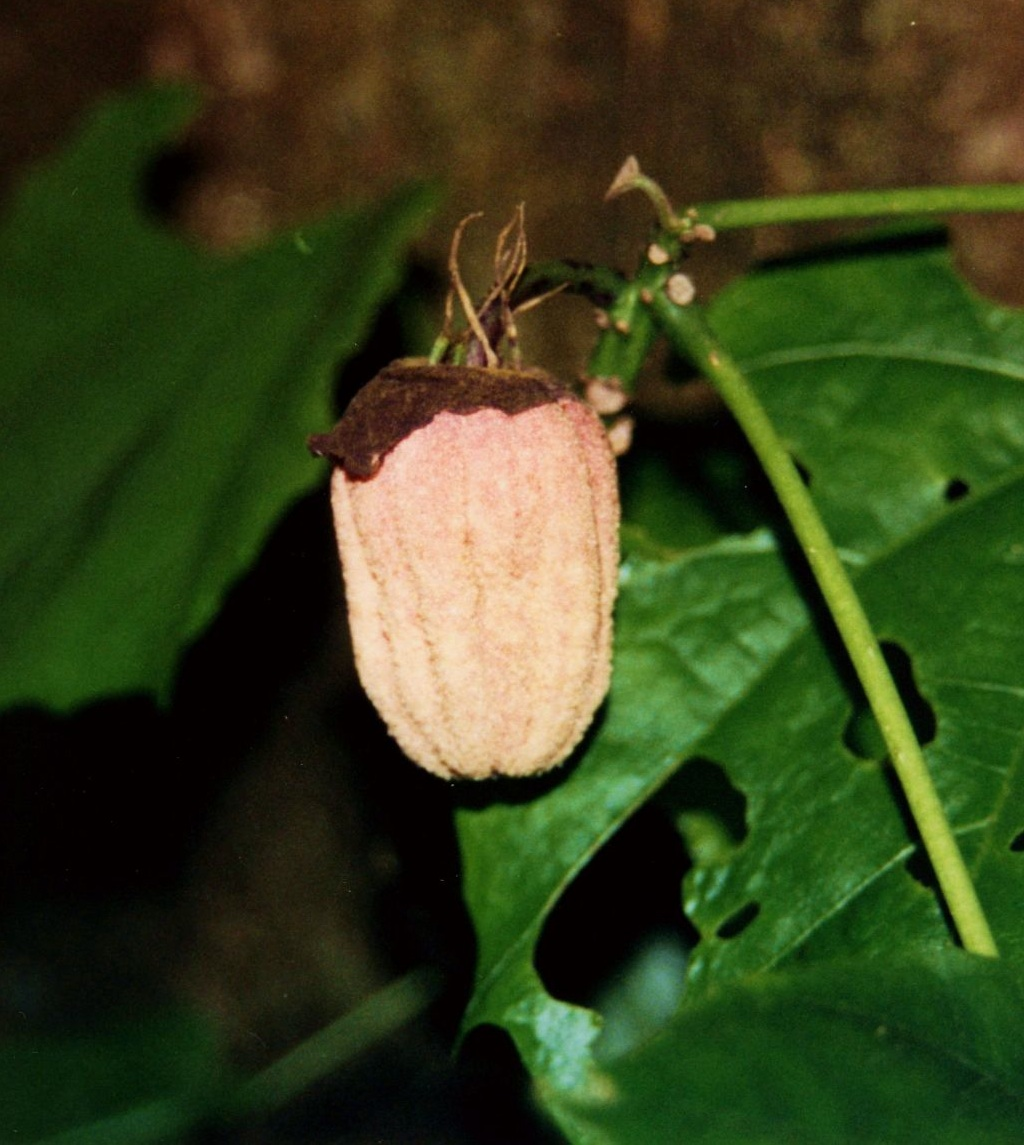 Fruit of Hibiscadelphus giffardianus. Photo taken by Karl Magnacca, at Hawaii Volcanoes National Park.